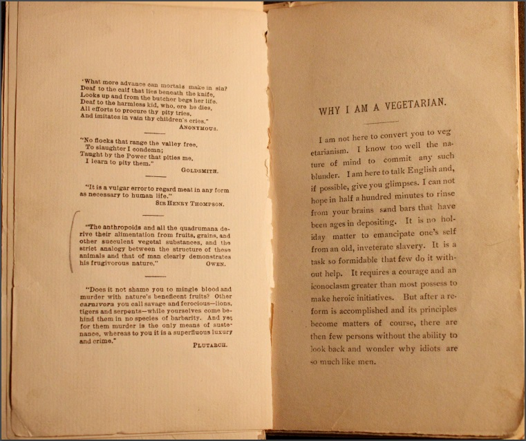 The first page of Why I Am A Vegetarian.